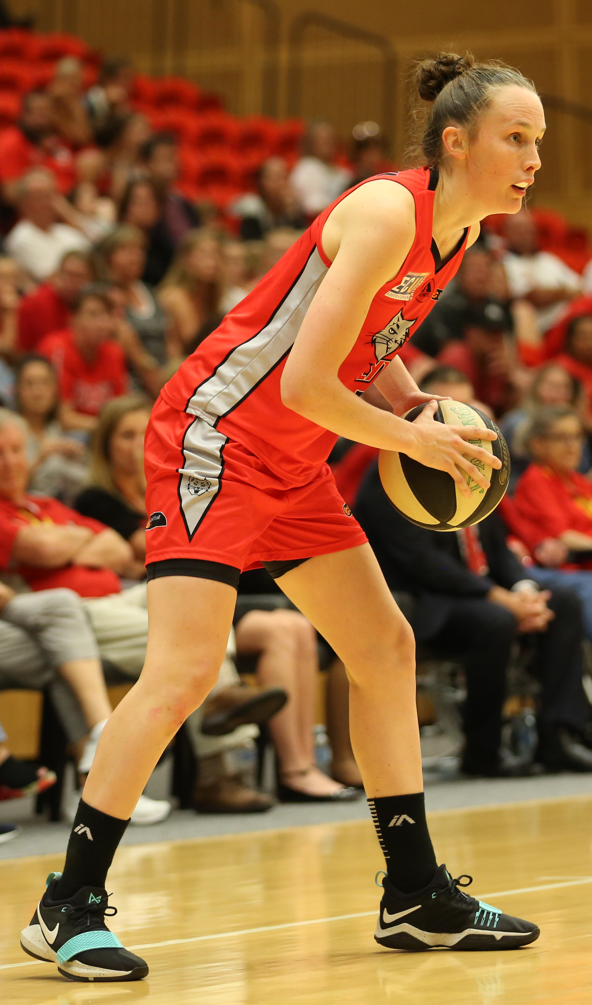 Toni Farnworth in action for the Perth Lynx in January 2018.